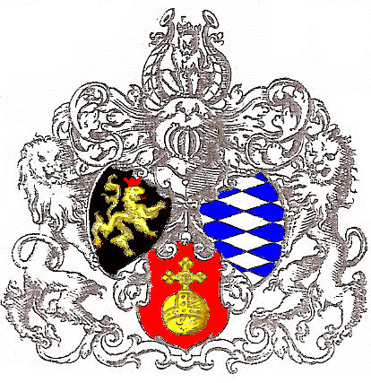 Coat of arms of the elector of Palatinate in 1703, the colours of the shields were added by thw1309